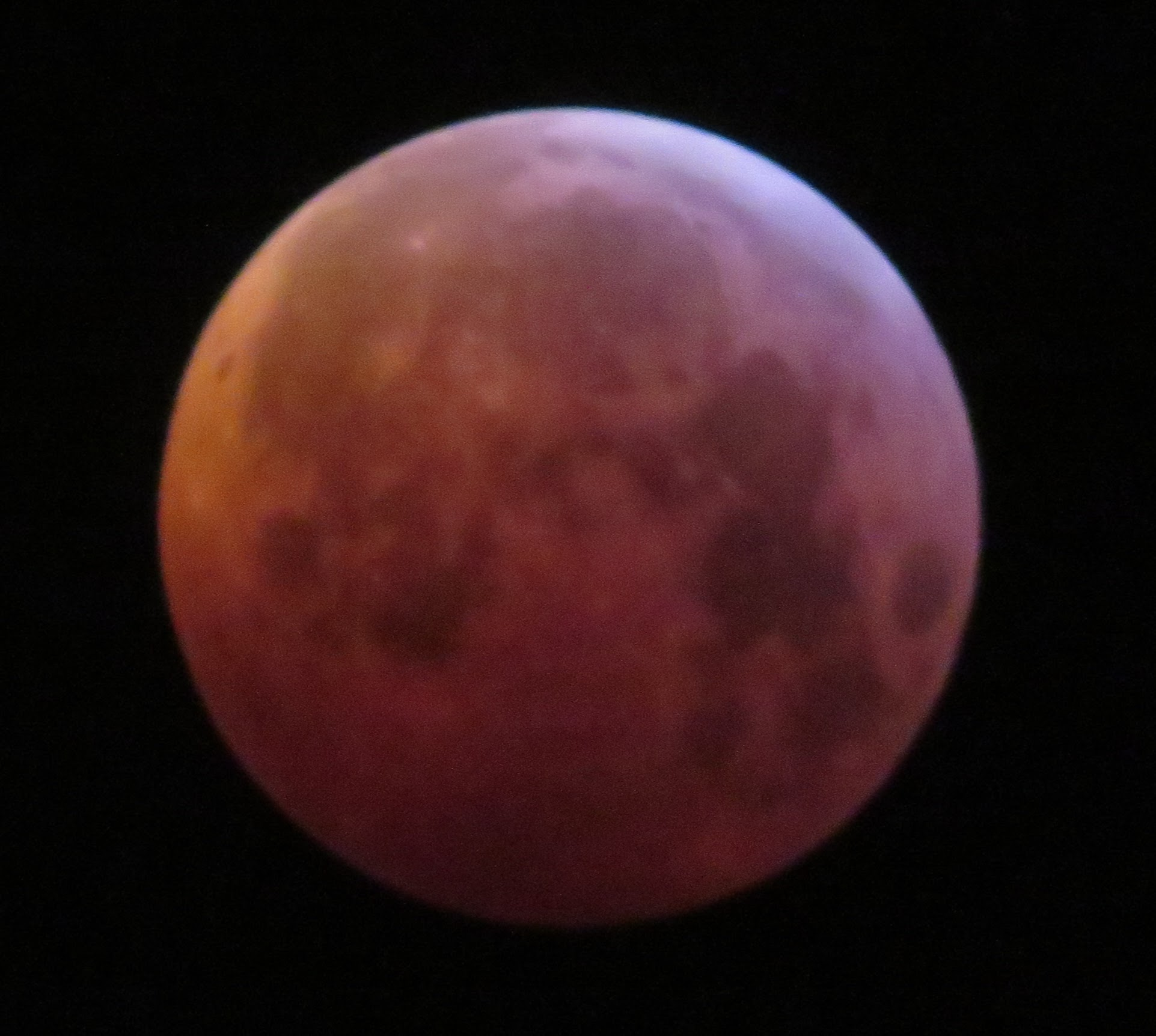 Lunar eclipse of 2019 January 21, Belgium